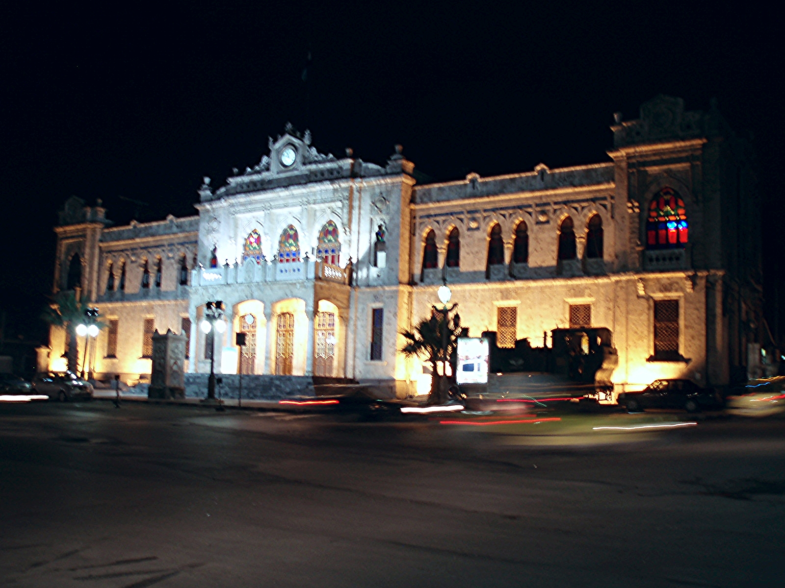 Syria 2007 009 Train Station Hidjaz Damascus